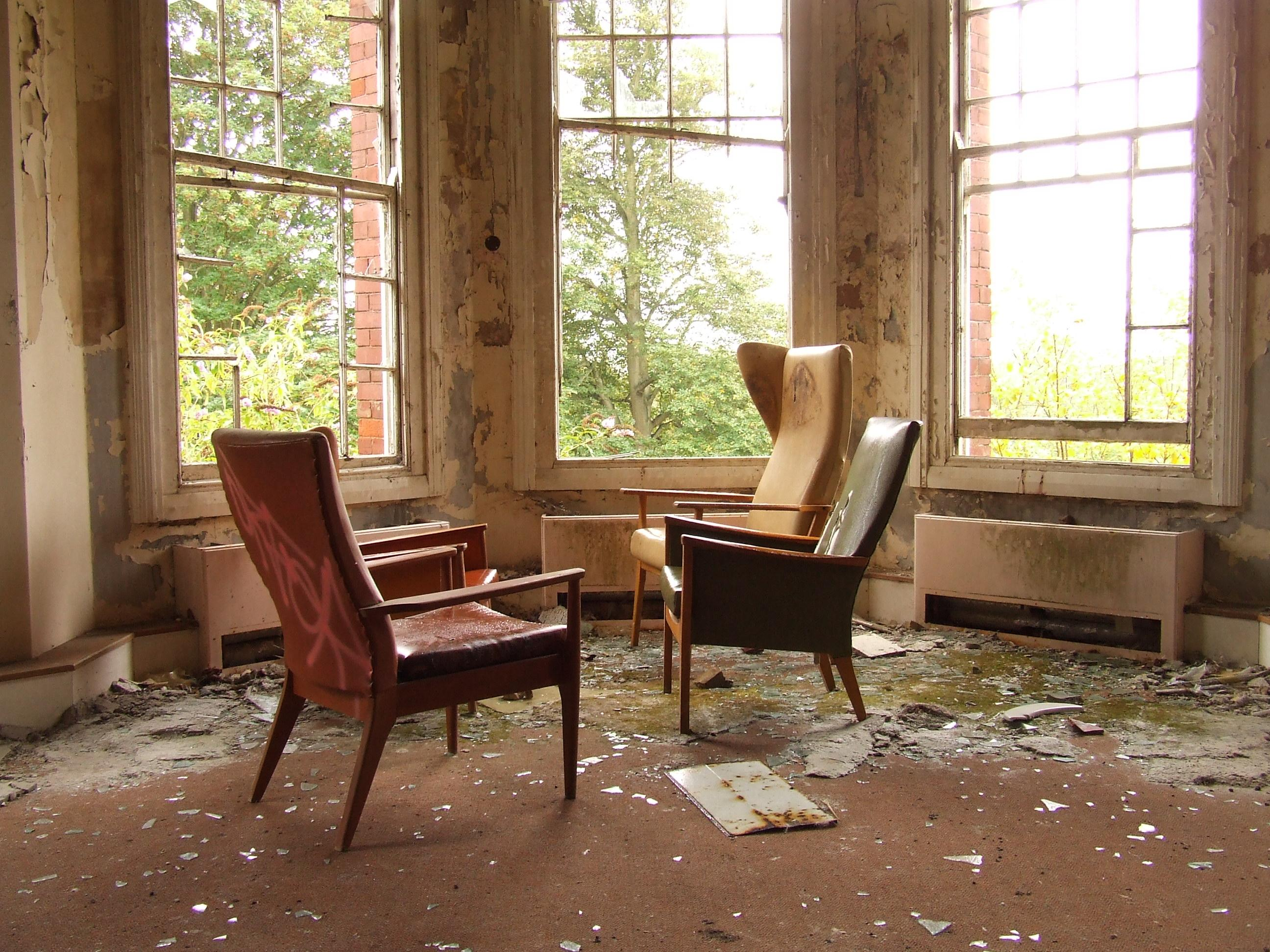 Hellingly Hospital, England